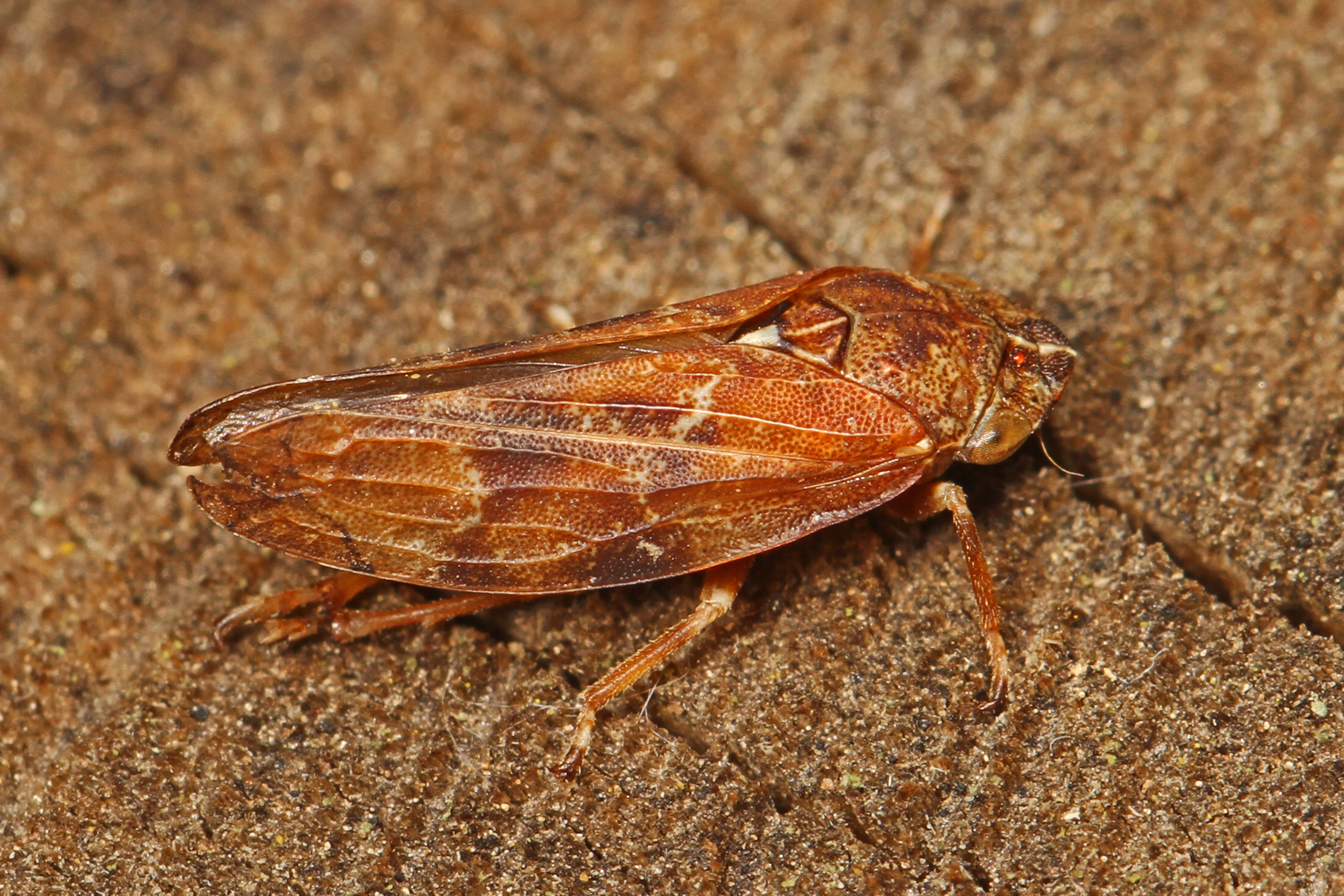 Douglas-fir Spittlebug - Aphrophora permutata, Coldstream Cemetery, Coldstream, British Columbia.